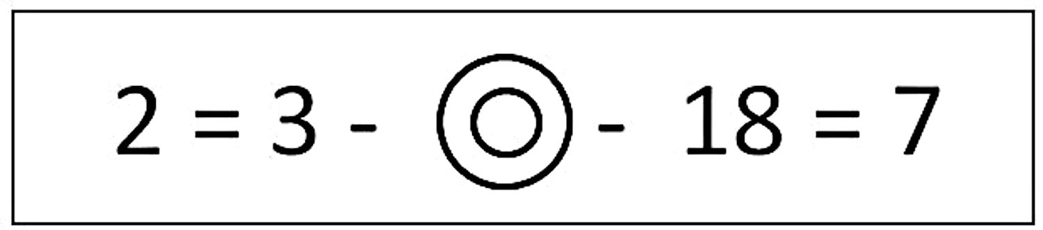 This is the equation appearing on the Peralta Stones. It is in fact the map scale legend. It says Post 2 is 3 km from the large hole in the stone and Post 18 is 7 km from the same large hole. It establishes that the scale of the Peralta Stone Map from position 2 to 18 is 10 km.